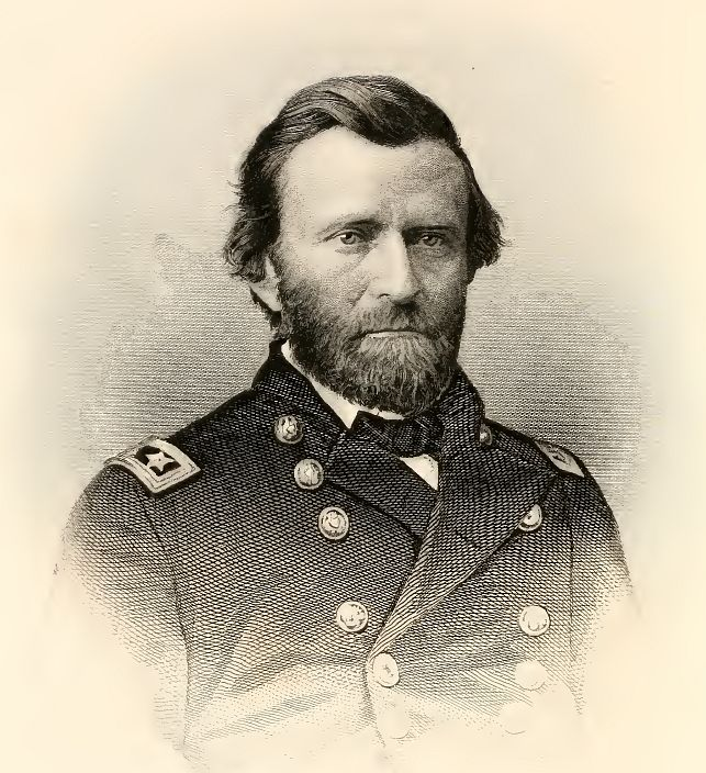 Engraving of Ulysses S. Grant, by A. H. Ritchie